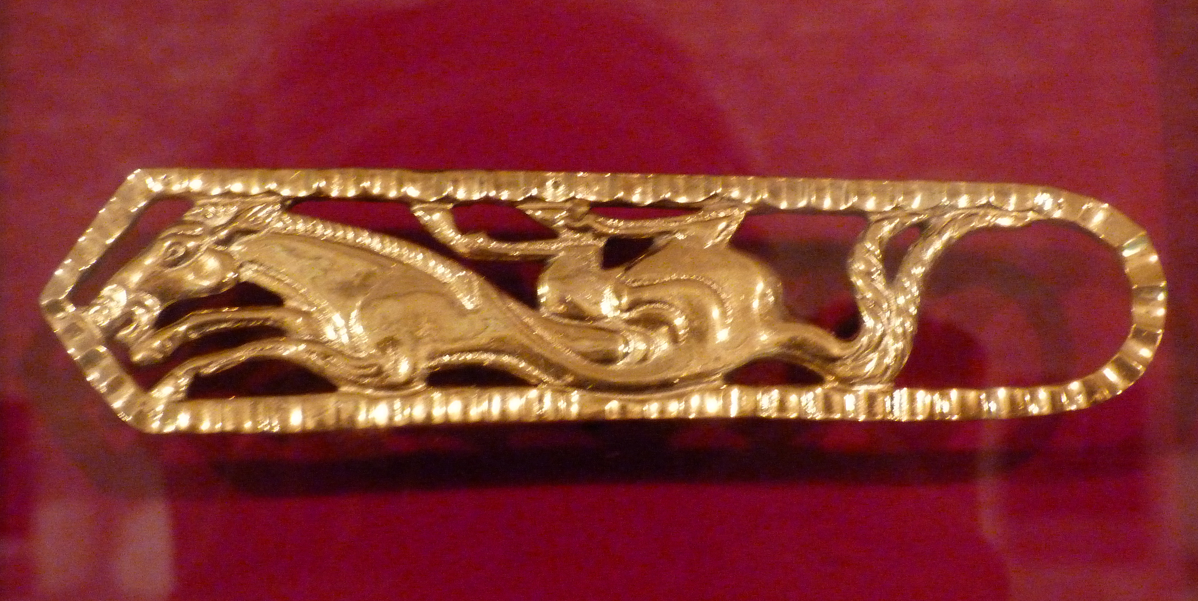 Empire of the Sun. Scytians ! Great, honorable men ! Remember the beginning of your way ! Live on the 13th of November, 2012, Budapest, VAM Design Center. Published under Creative Commons in the Metapolisz DVD line. All of the photos and vids in the Metapolisz DVD line are under Creative Commons and can be used even for commercial - for profit - purposes. Recommended citation: Derzsi Elekes Andor: Metapolisz DVD line Sources: Сенсационной называют свою находку археологи, обнаружившие в Карагандинской области «золотого человека» Sun emperor File:Sun_emperor.JPG Még mindig tagadnunk kell? Szkíta „aranyembert” találtak a kazah régészek A szkíta Napherceg Szkíta kincsekből nyílik egyedülálló kiállítás Budapesten: Badinyi-Jós Ferenc :a tatárlakai korong szövegének megfejtése: „Oltalmazónk! Minden titok dicső Nagyasszonya! Vigyázó két szemed óvjon, Napatyánk fényében!” Szathmáry megfejtése: „Egyetlen, magasztos Teljességünk leáldozóban, de Fény atyánk arca felemelkedik, ismét felragyog, s betölti dicsőségét!”